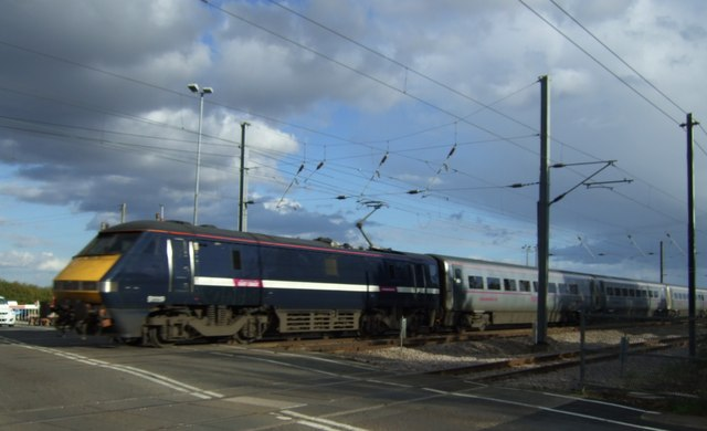 East Coast train passing Tallington Level Crossing